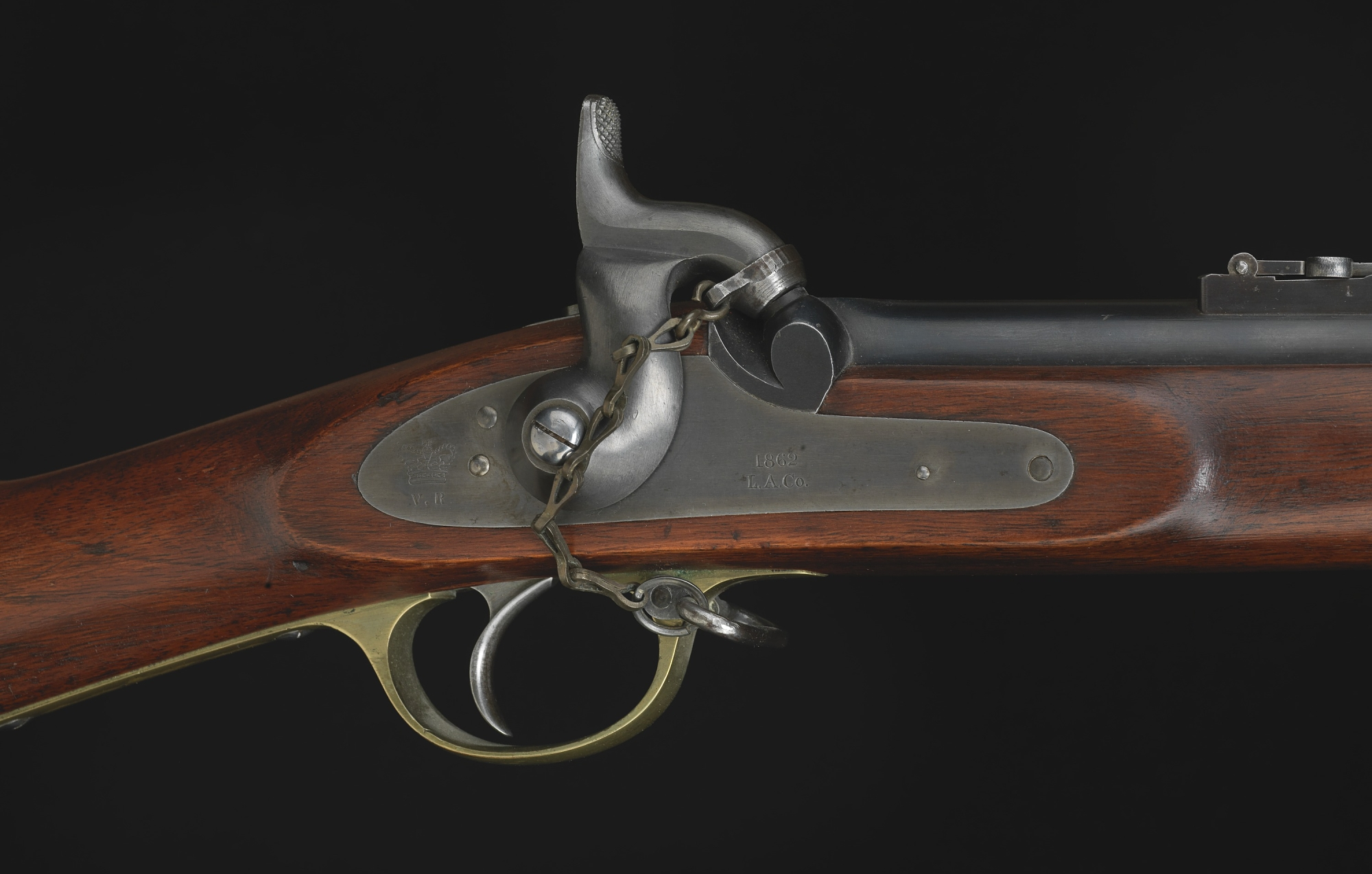 British Pattern 1853 Rifle at the National Museum of American History.